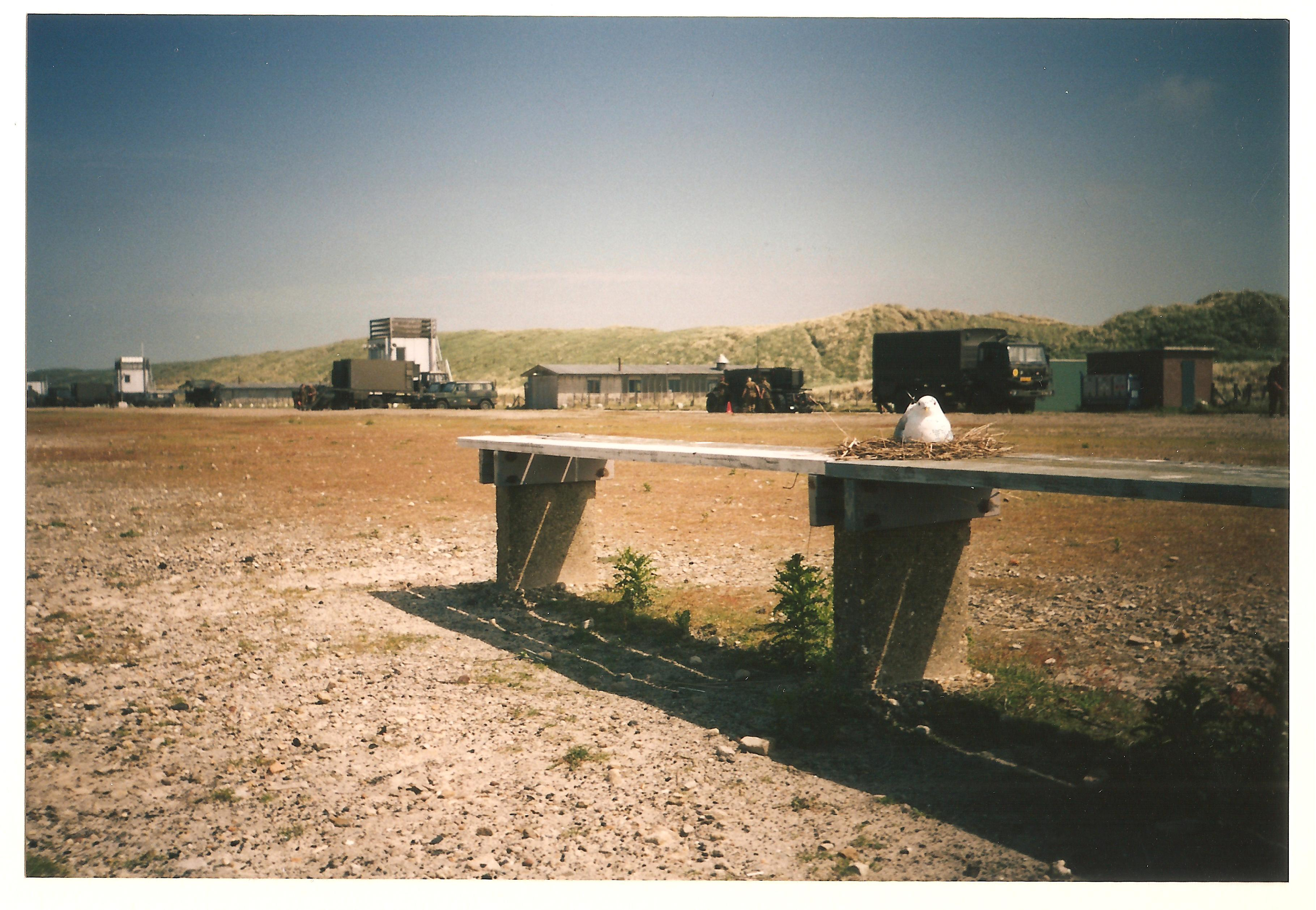 A gull nesting on a bench at the shooting range Botgat.